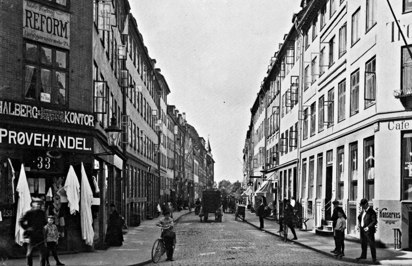 Sankt Peders Stræde in Copenhagen, Denmark